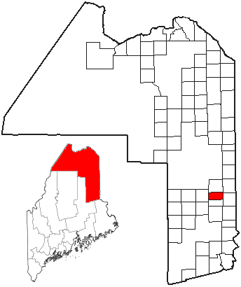 Adapted from U.S. Census Bureau maps (American FactFinder) and Wikipedia's ME county maps by Bumm13.